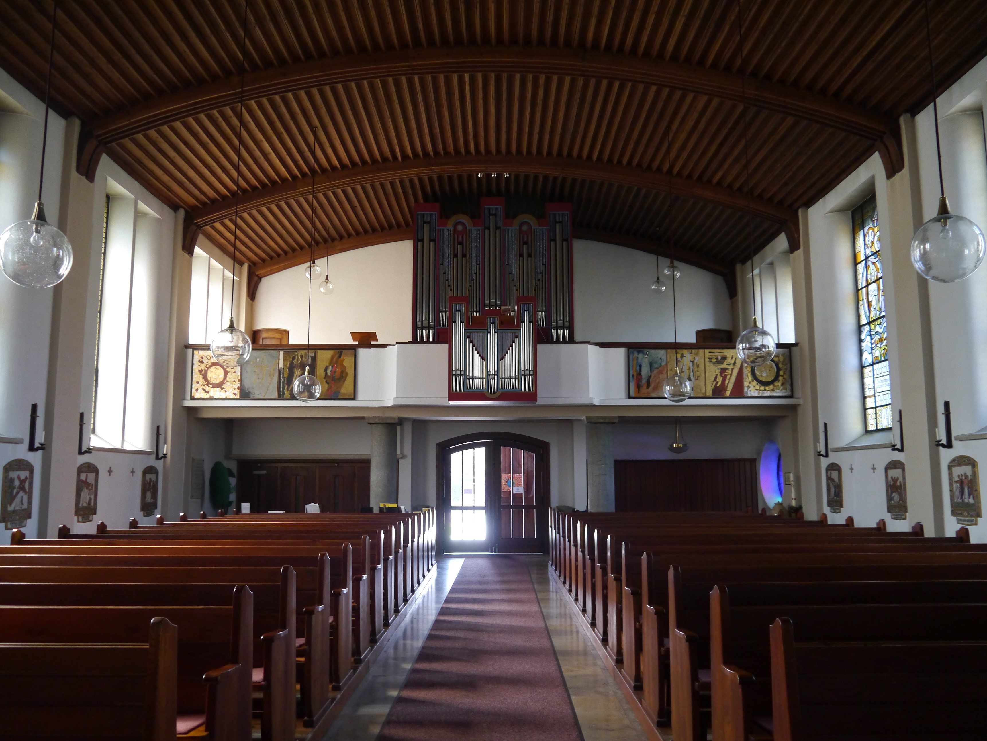 Nave of the Hundertwasser Church St. Barbara, Bärnbach, Styria